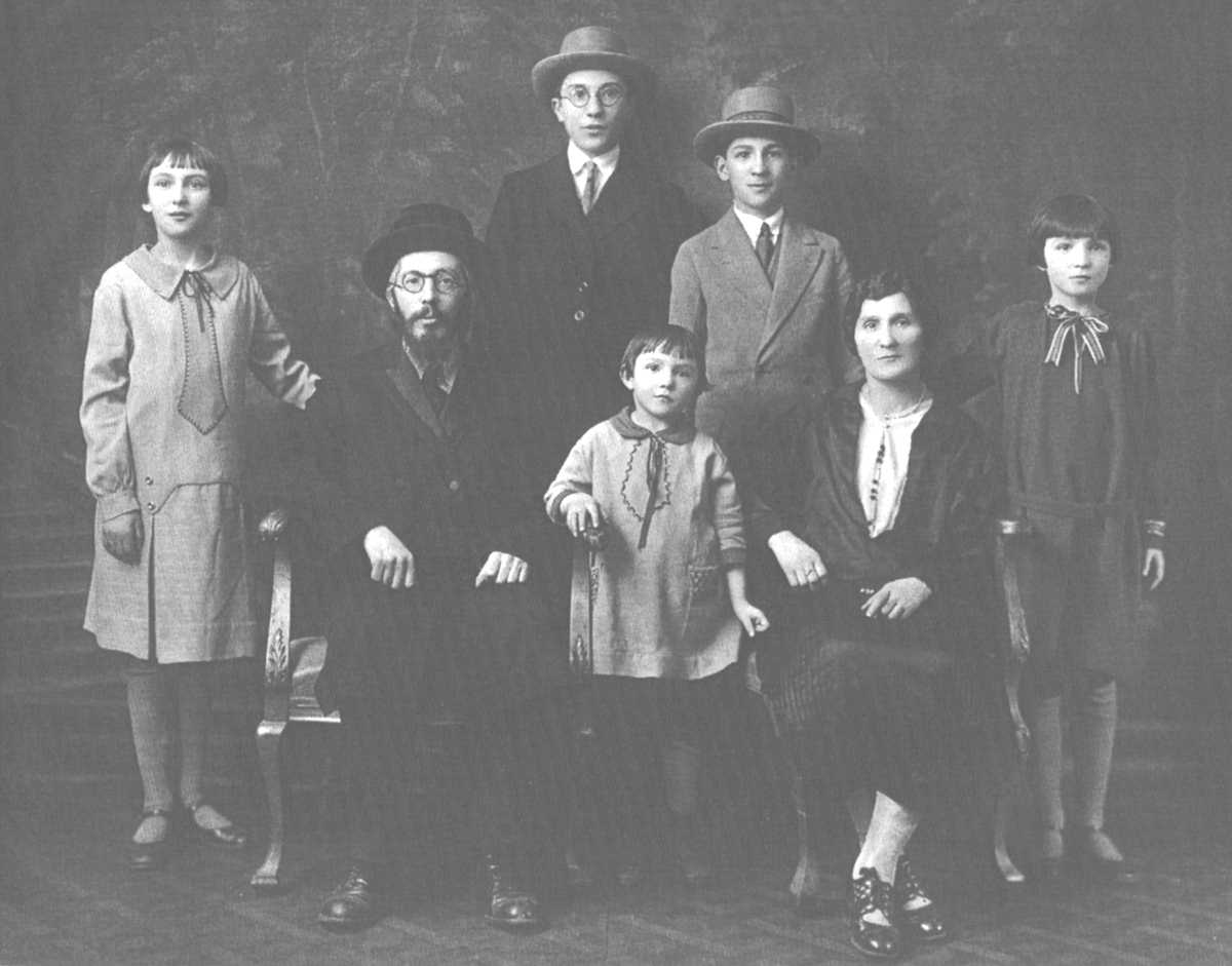 Family of Chaim Bick, 1926, New York.